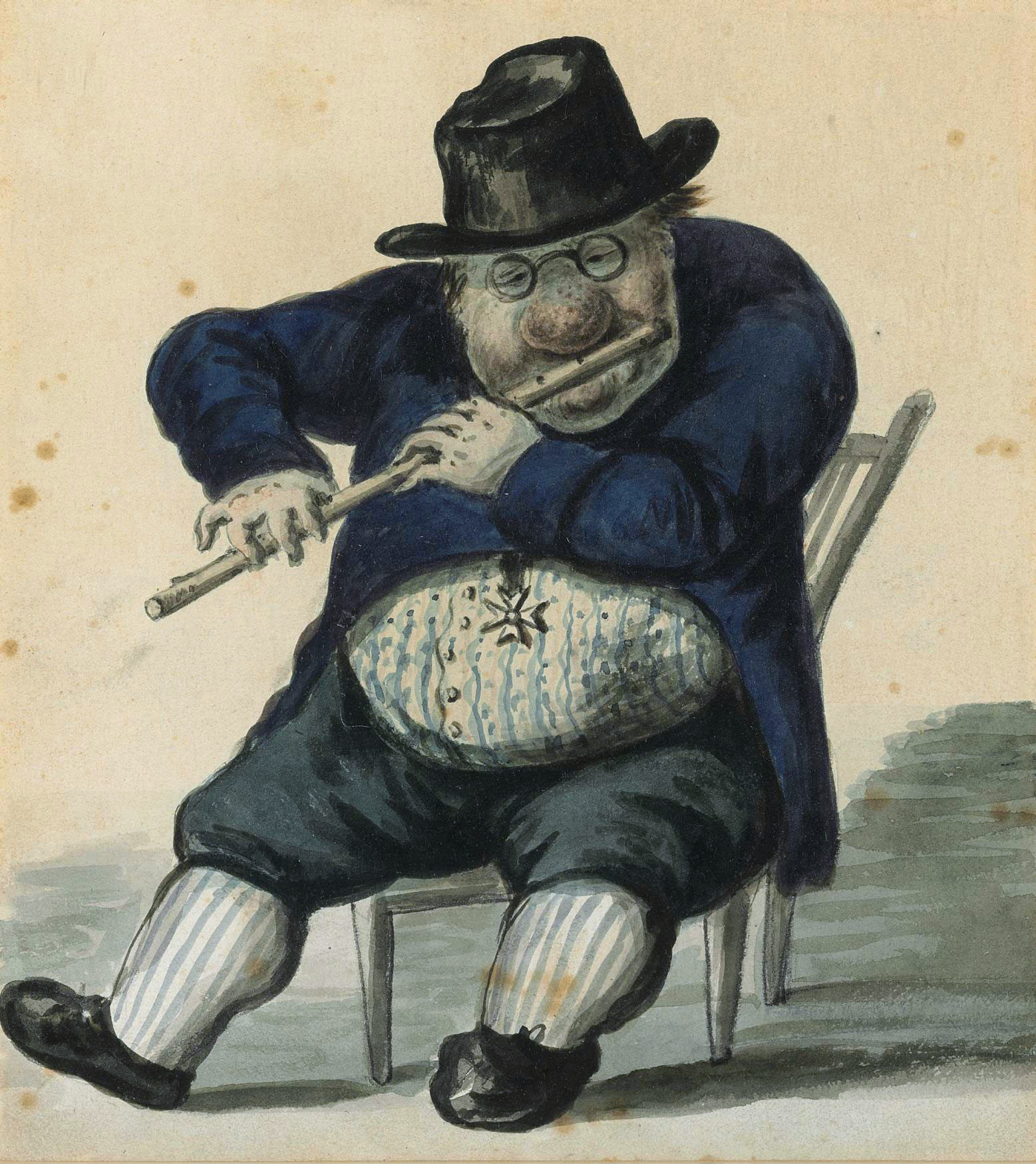 Caricature of Giacomo Quarenghi wearing the Order of the Knights of Malta and playing the flute pencil and watercolour on paper 22.9 x 20.3 cm. approximately